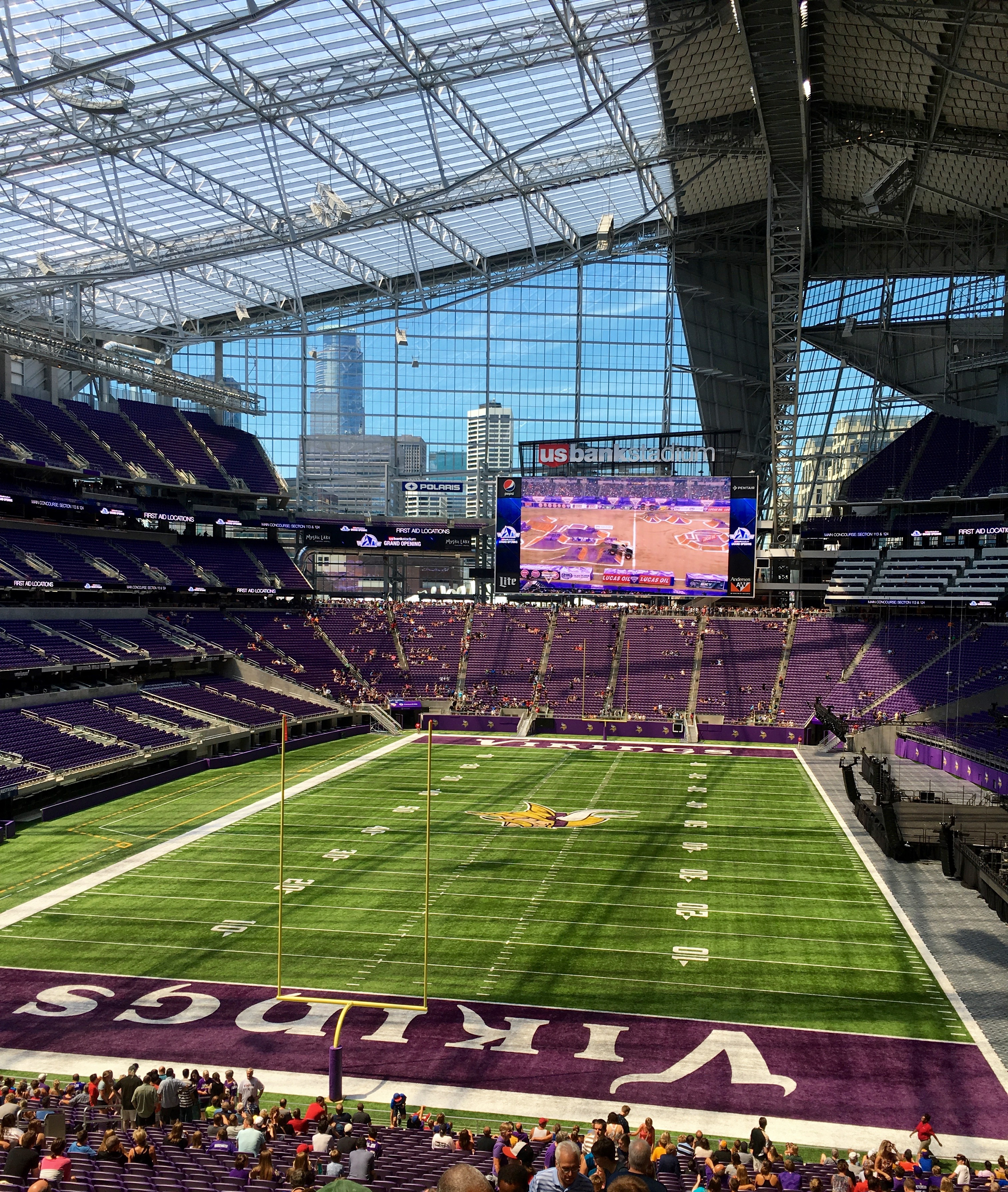 The interior of US Bank stadium, with the MN Vikings NFL setup